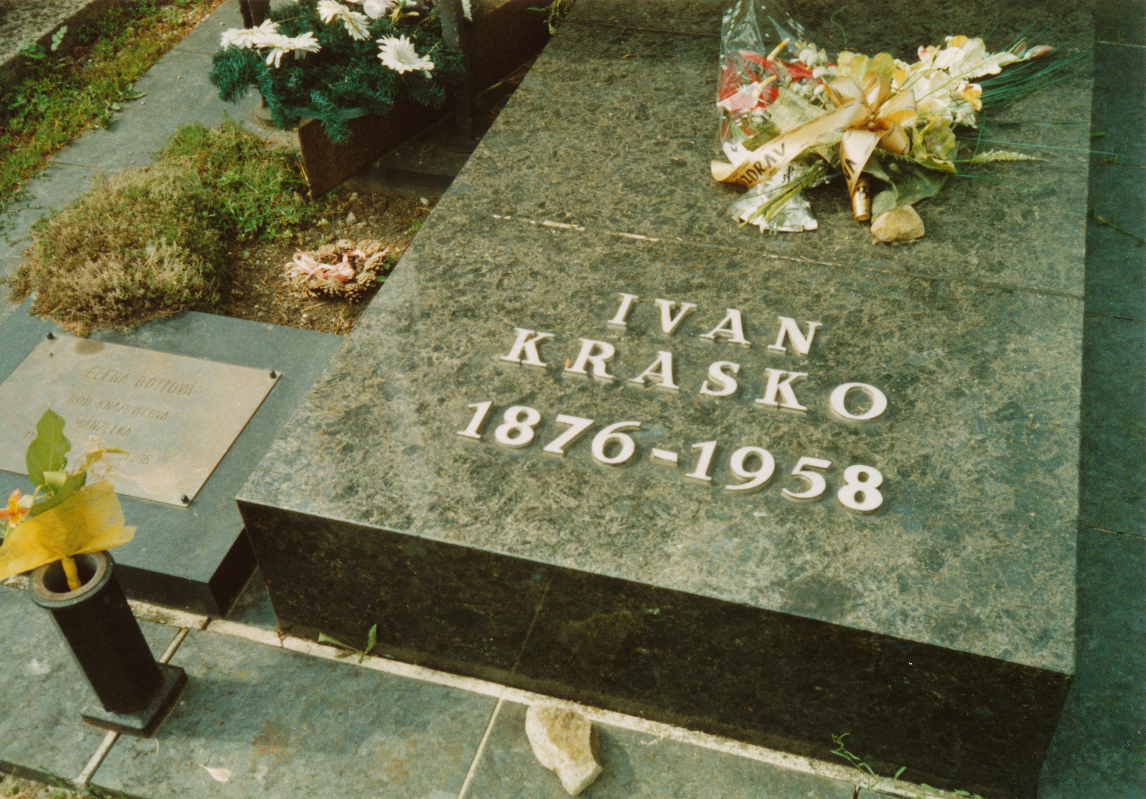 Grave of Slovak poet Ivan Krasko in Lukovištia, Slovakia.